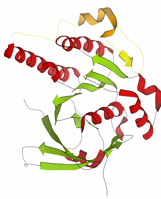 Crystal structure of a RAD51-BRCA2 BRC repeat complex